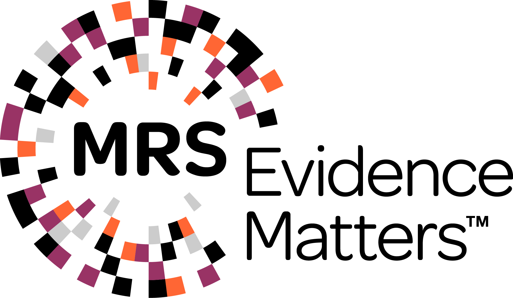 The Market Research Society 'Evidence Matters' logo.